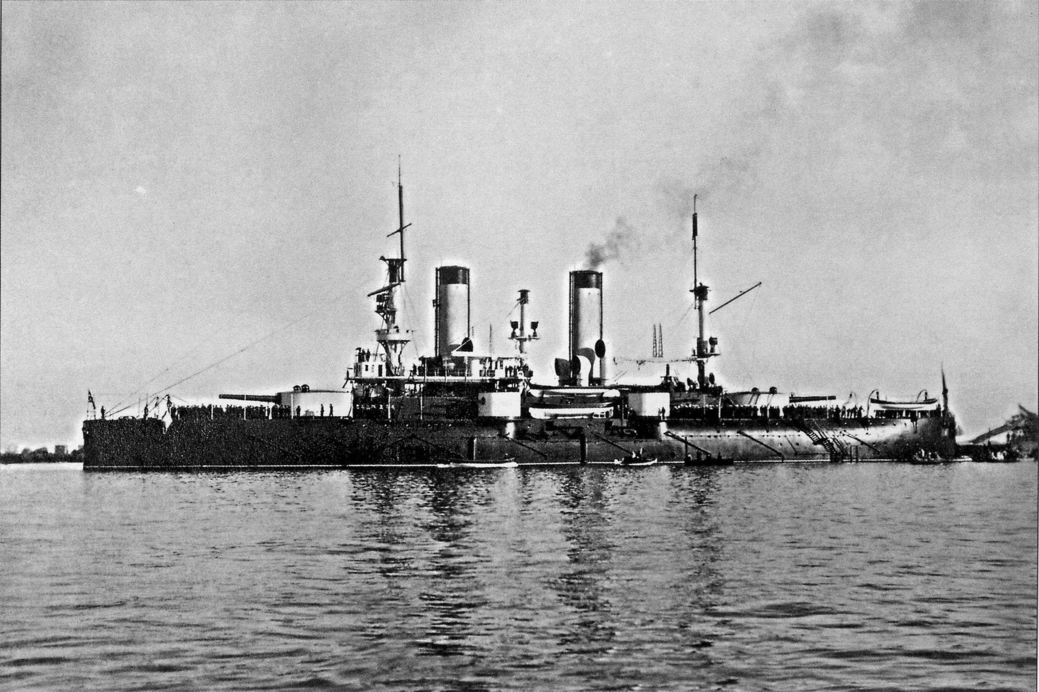 Imperial Russian battleship Petropavlovsk in Kronshtadt, 1899.